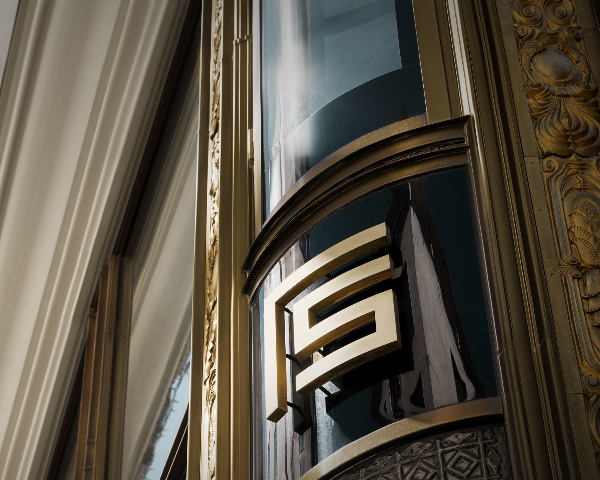 Nero Assoluto által tervezett, gránitkőbe vésett eredeti rézből készült Fashion Street logó